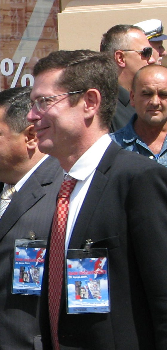 Ivan Šimonović, a politician of Croatia